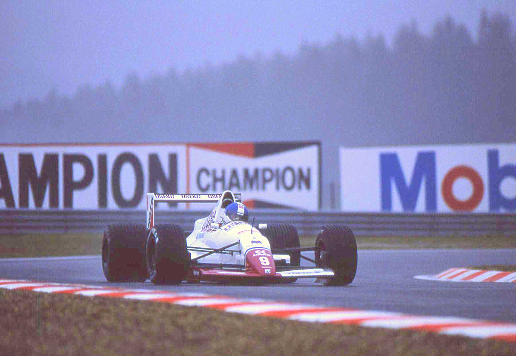 Derek Warwick - Arrows-Ford. Scan diapo argentique.